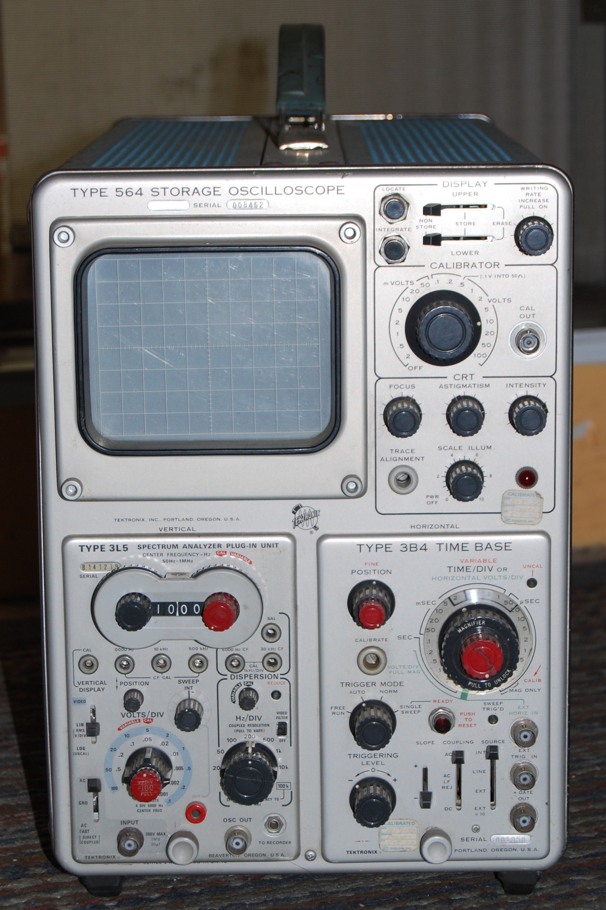 Hughes Aircraft made the first storage oscilloscope the 104D but very few were made. Tektronix mass produced a better one the 564 and with plug-ins it can do much more.